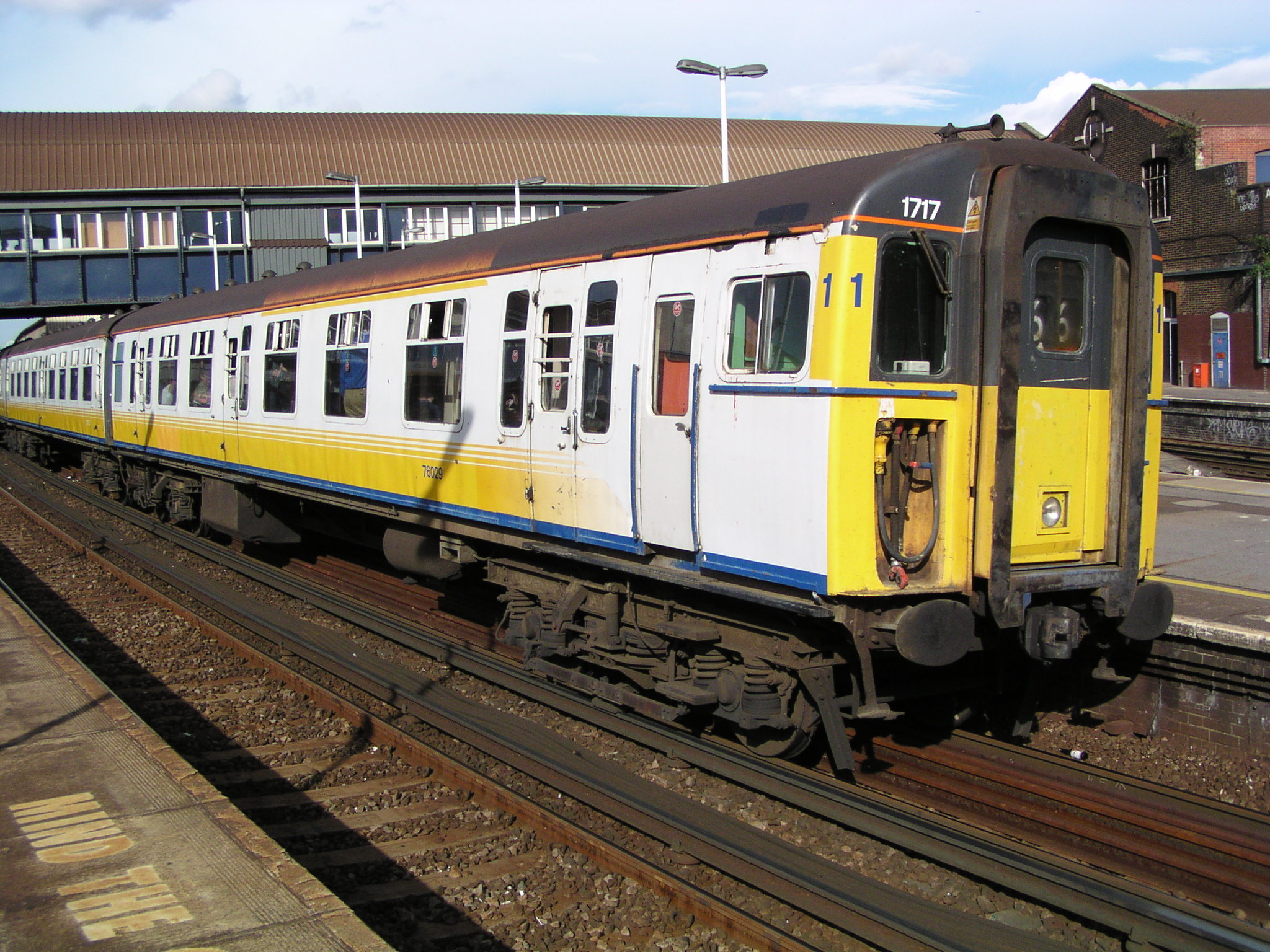 This image was copied from (Image:1717 at Clapham Junction.JPG). The original description was: BR Class 421, no. 1717 at Clapham Junction on 20th August 2004. This was one of the last few 'Phase 1' 4Cig units in service with Southern.